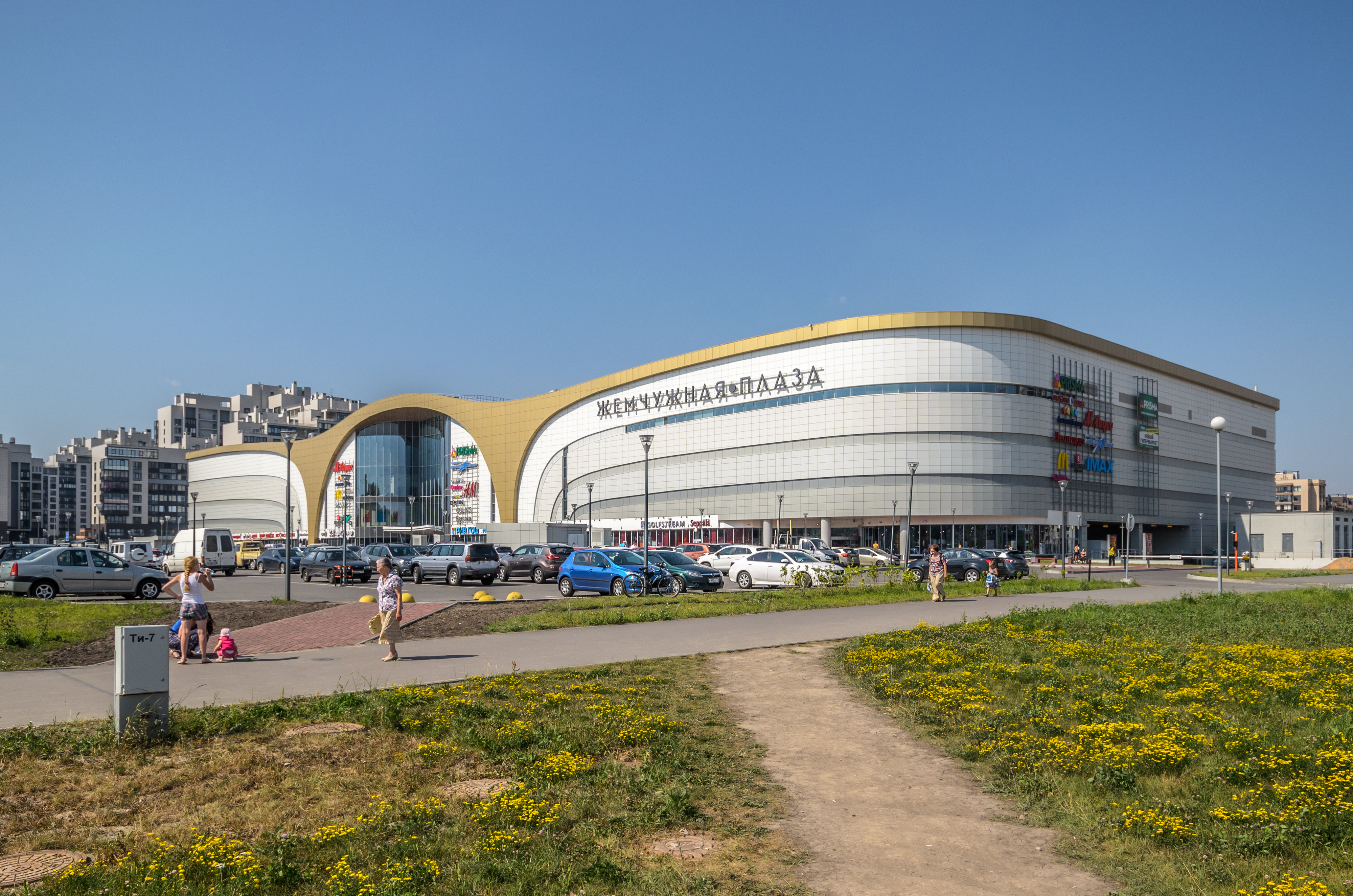 Pearl Plaza Mall in Saint Petersburg